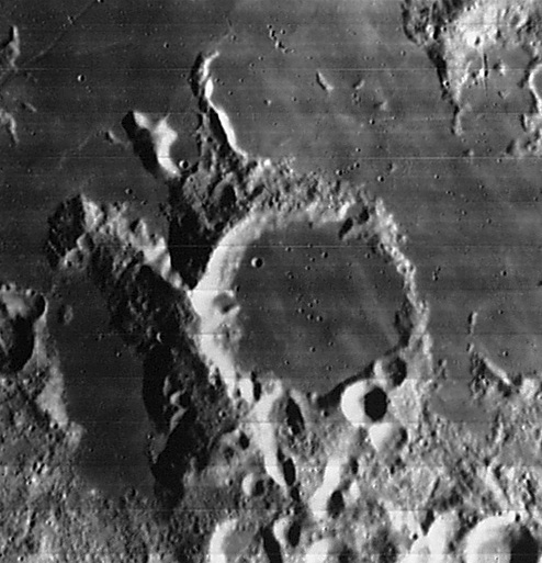 Capuanus lunar crater - part of the Lunar Orbiter - IV image iv 131 h3